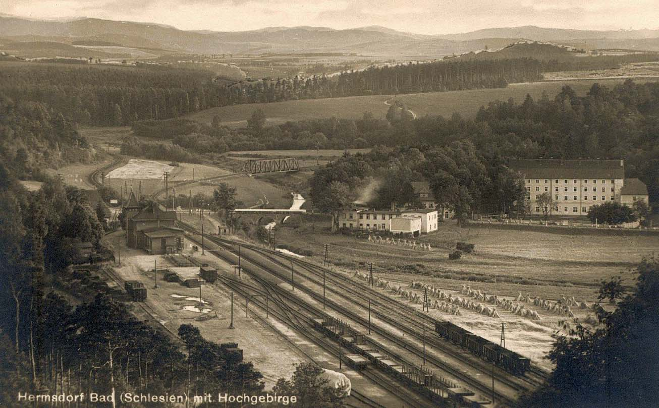 Jerzmanice-Zdroj railway station